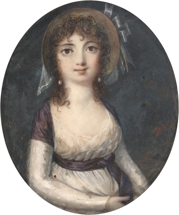 miniature of Eliza Poe, mother of Edgar Allan Poe - part of the Gimbel Collection of the Philadelphia Free Library.